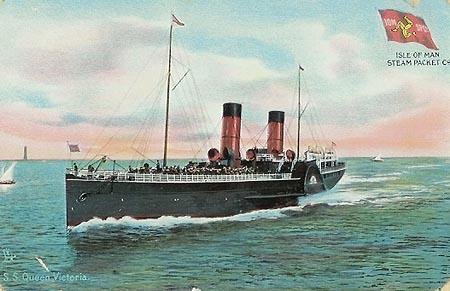 Postcard of Paddle Steamer Queen Victoria